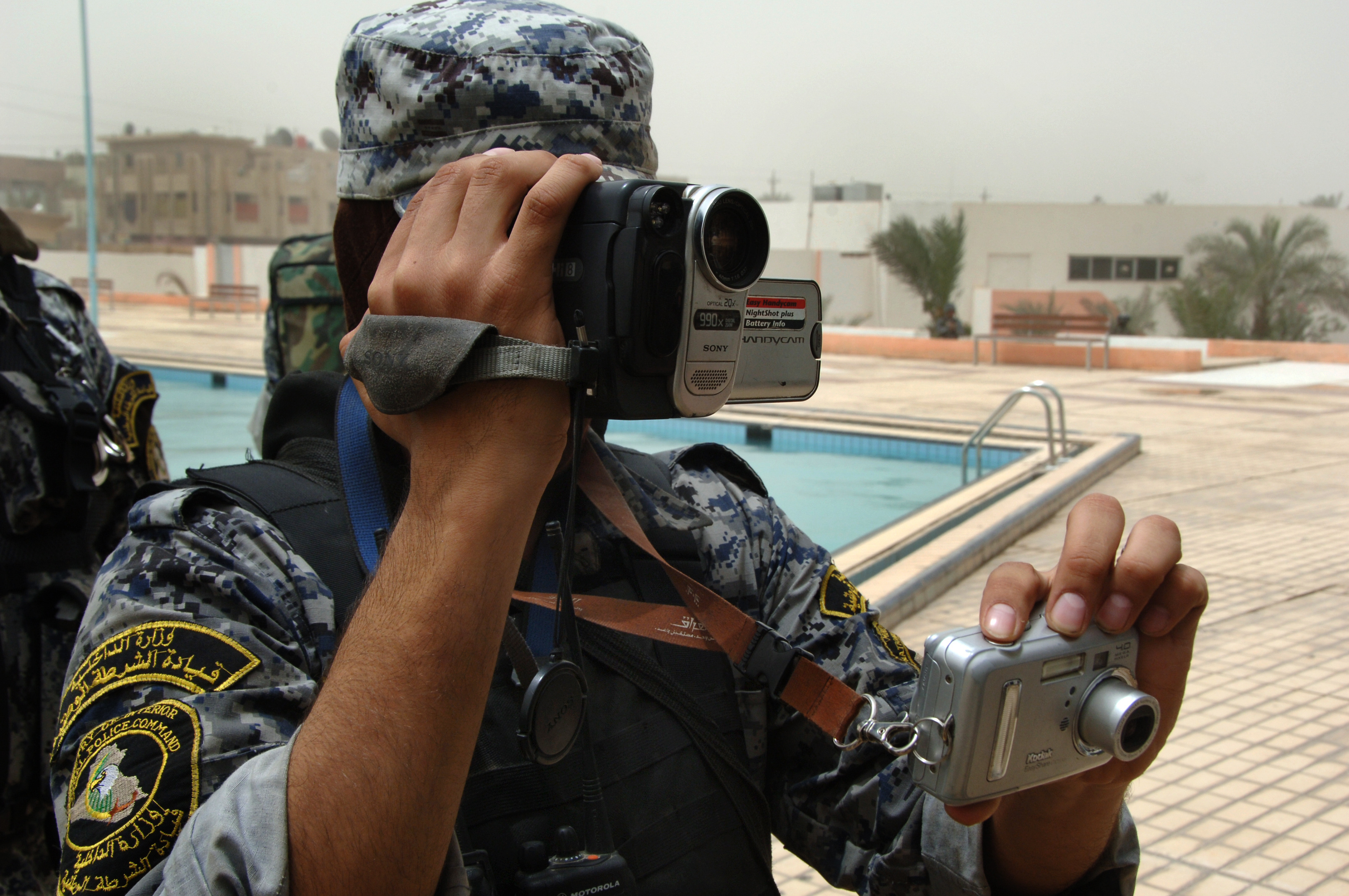 An Iraqi National Police officer pulls double duty as a photographer and a videographer during the ribbon cutting ceremony at the al Jadida Public Swimming Pool in Baghdad, Iraq, June 7, 2008.